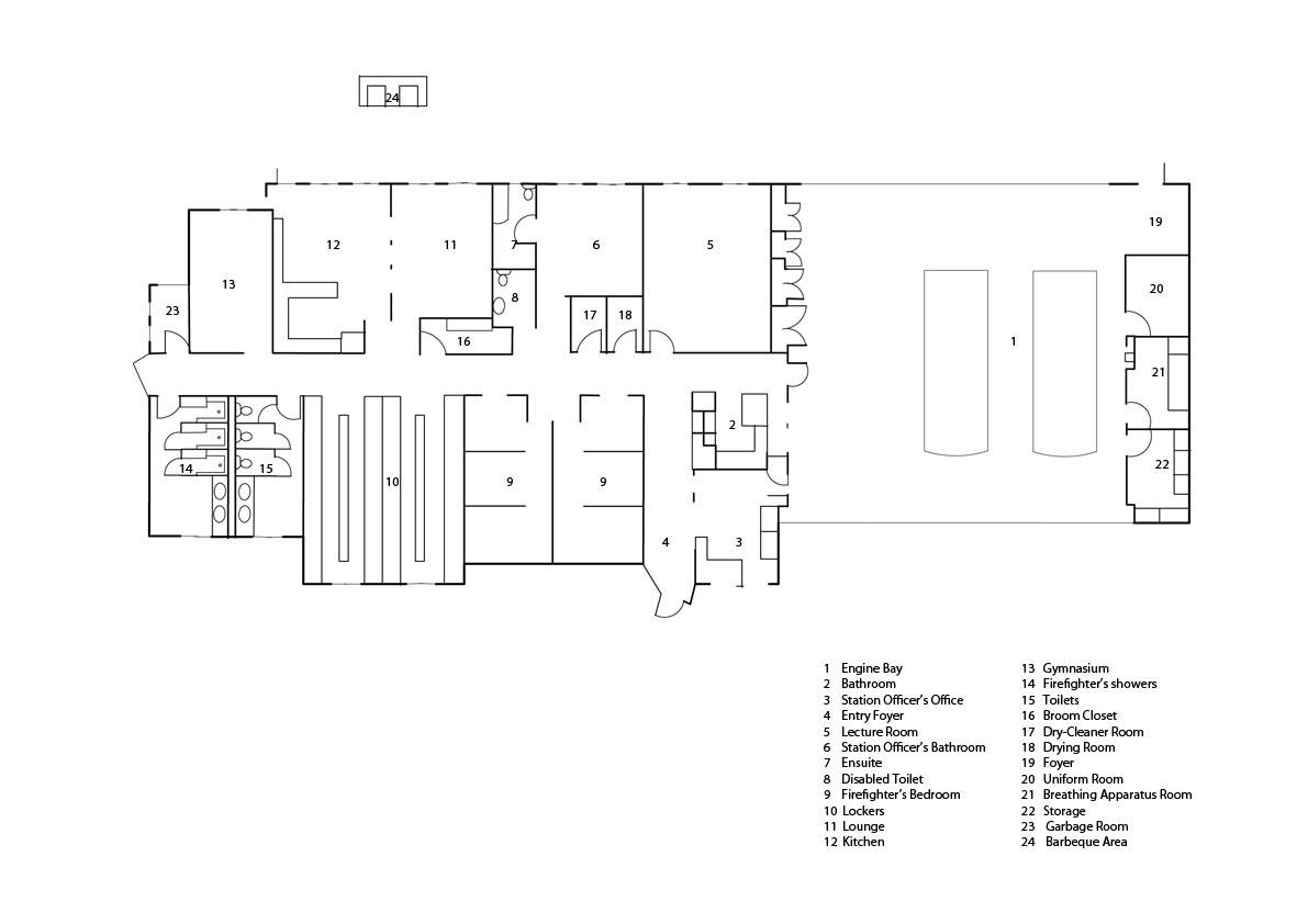 Ground floor of the Keilor Fire Station By Peter Corrigan